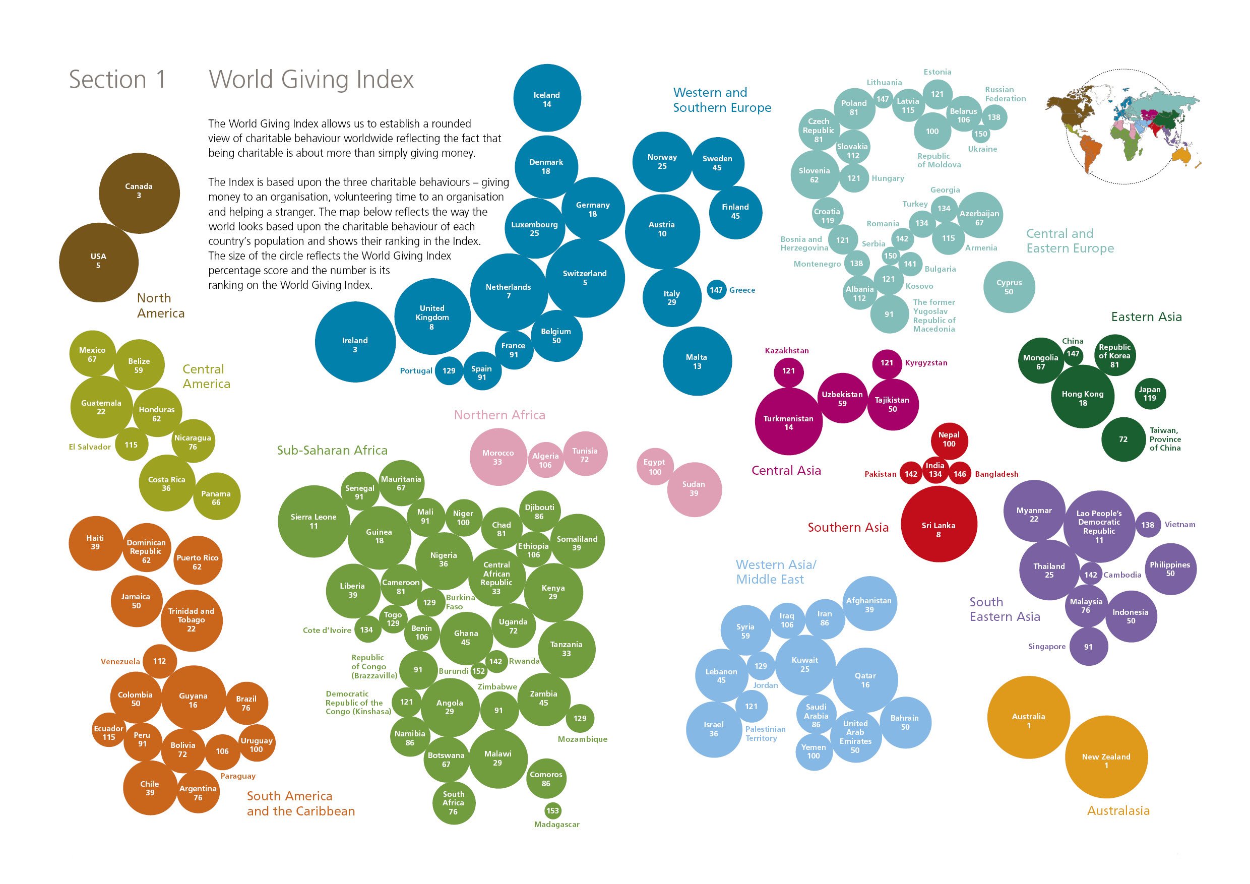 Graphic representation of the World Giving Index 2010